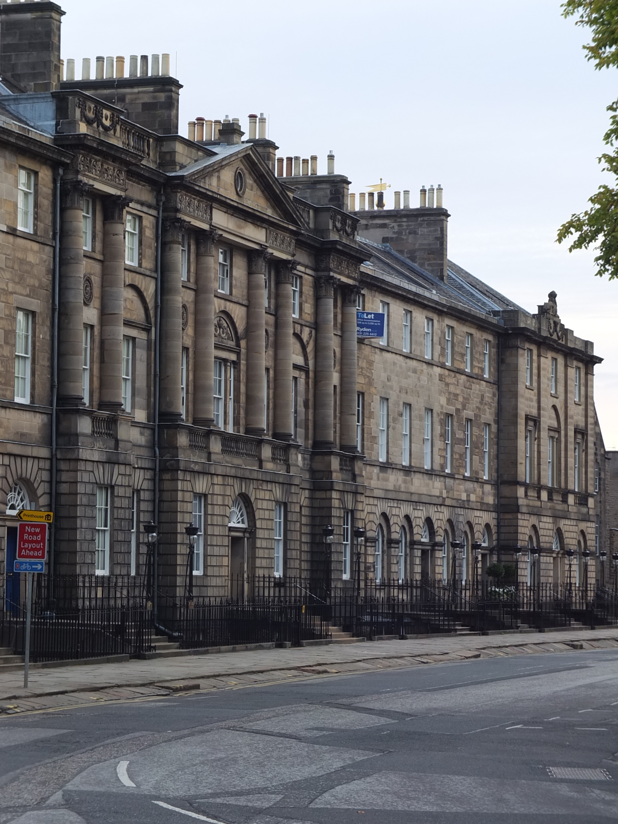 1-11 Charlotte Square